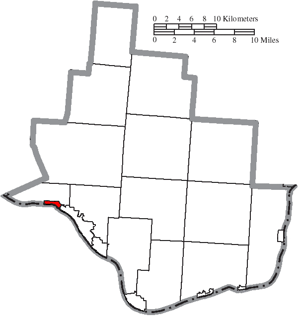 Map of the municipal and township boundaries of Lawrence County, Ohio, United States, as of the 2000 census, with the location of the village of Hanging Rock highlighted. Township borders are shown only in unincorporated areas in order to differentiate incorporated and unincorporated areas more clearly.